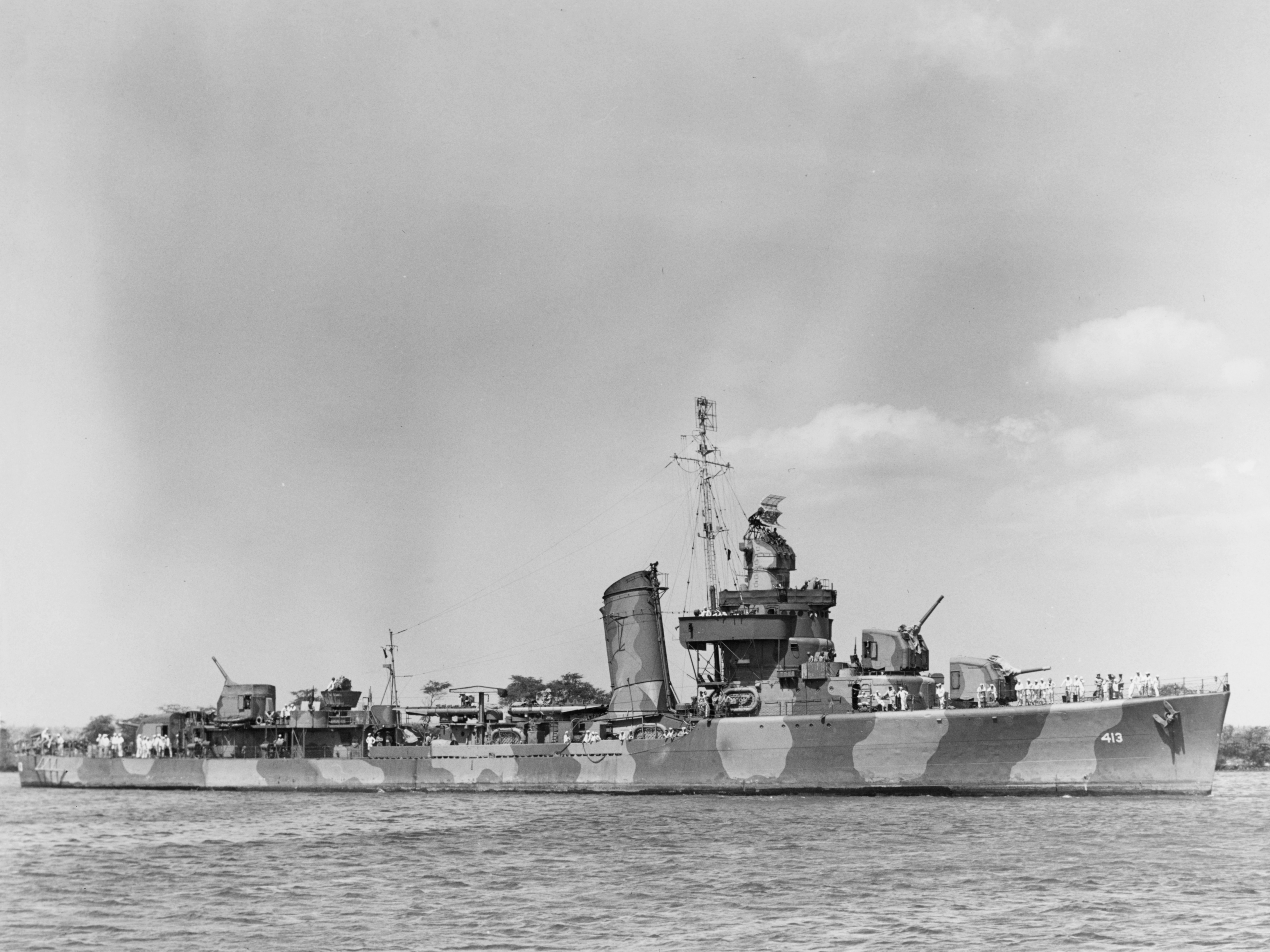 The U.S. Navy destroyer USS Mustin (DD-413) at Pearl Harbor, Territory of Hawaii, on 14 June 1942, following the search for survivors of the Battle of Midway. She is painted in Camouflage Measure 12 (Modified).